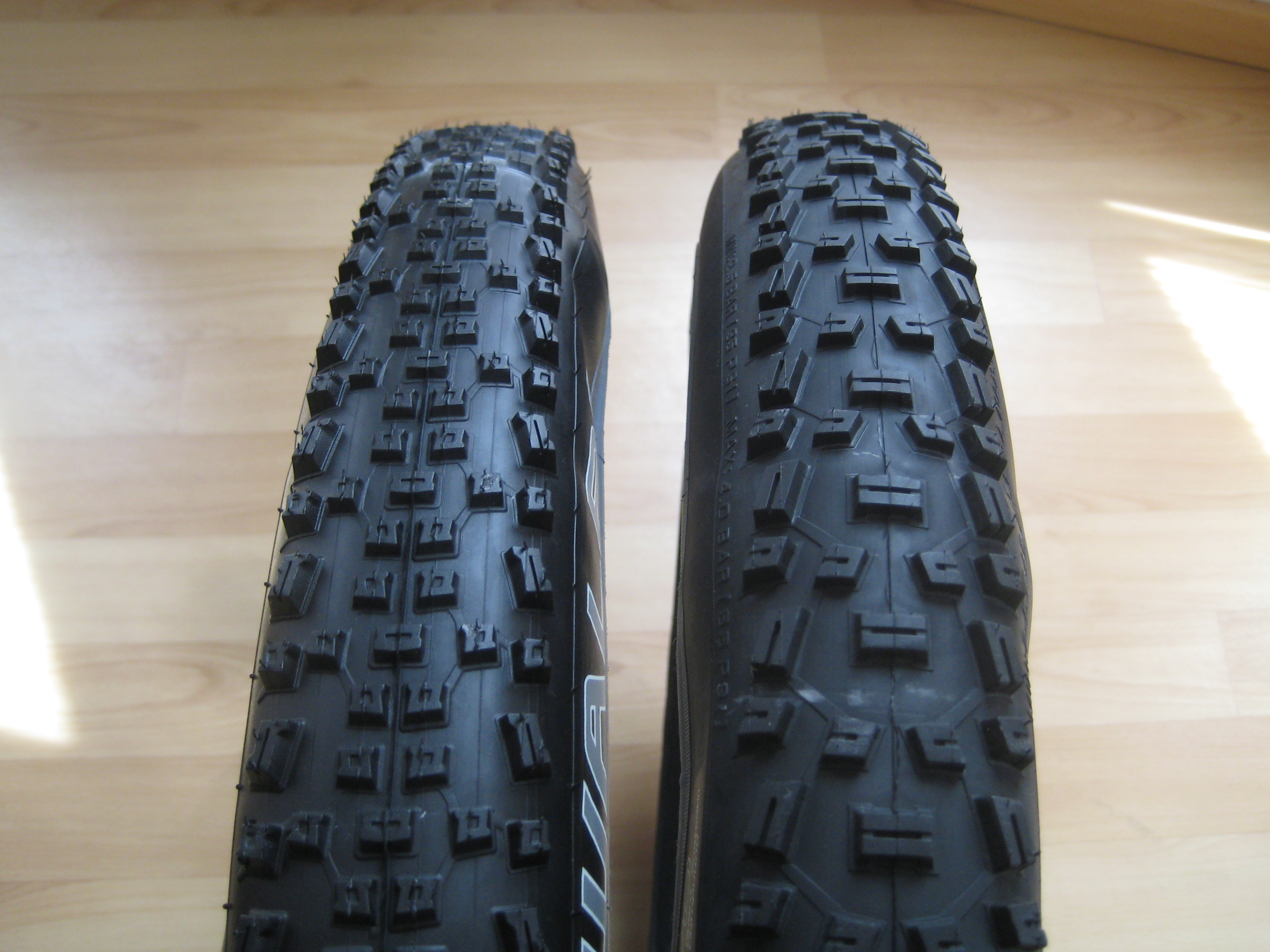 two mountain bike tires, same size (26, 2.1), but with different tread patterns